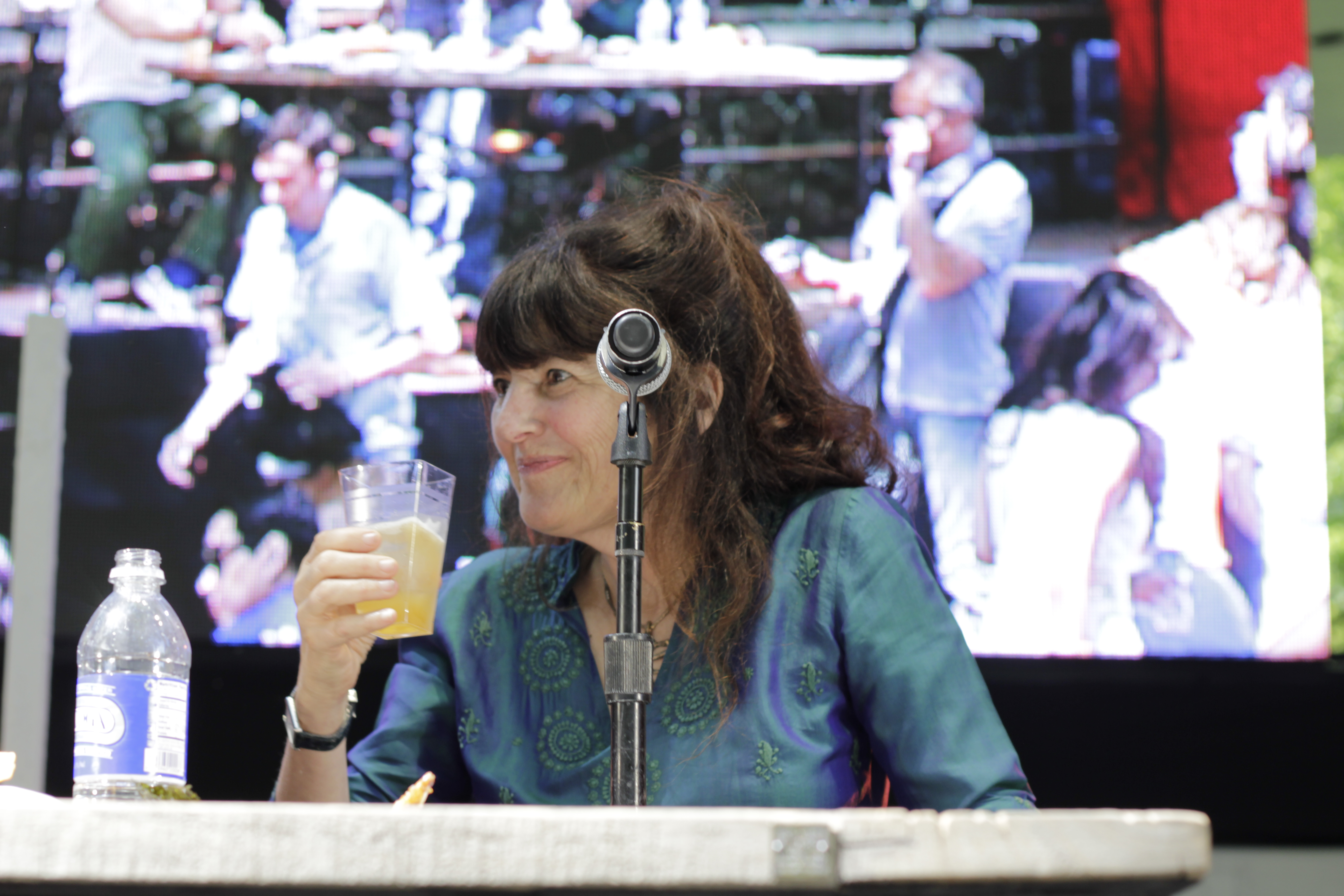 Ruth Reichl born 1948 at Prospect Park, Brooklyn, 5–19–2012 Check out the story at